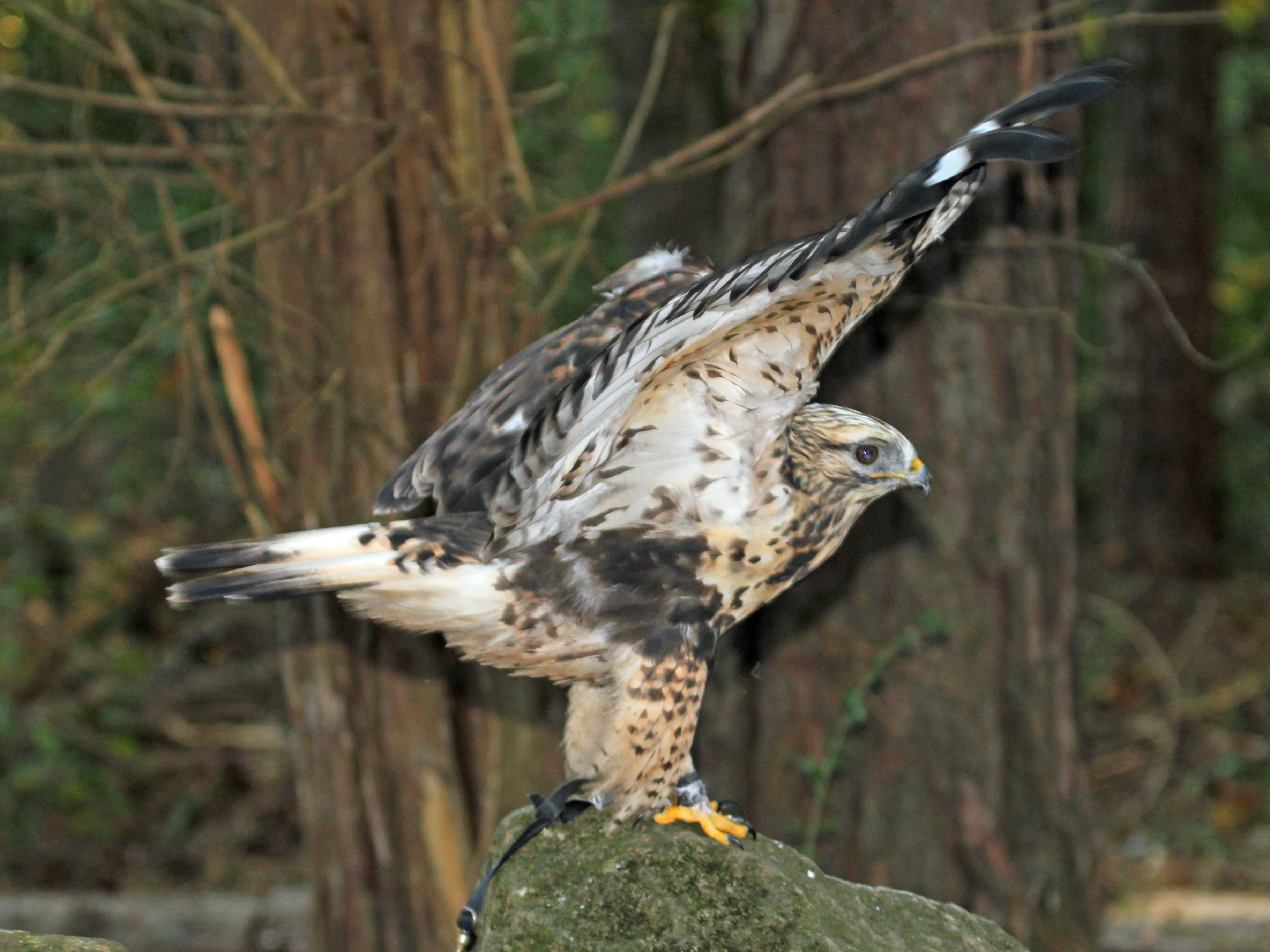 Rough-legged Hawk (Buteo lagopus) - Carolina Raptor Center at Huntersville, North Carolina